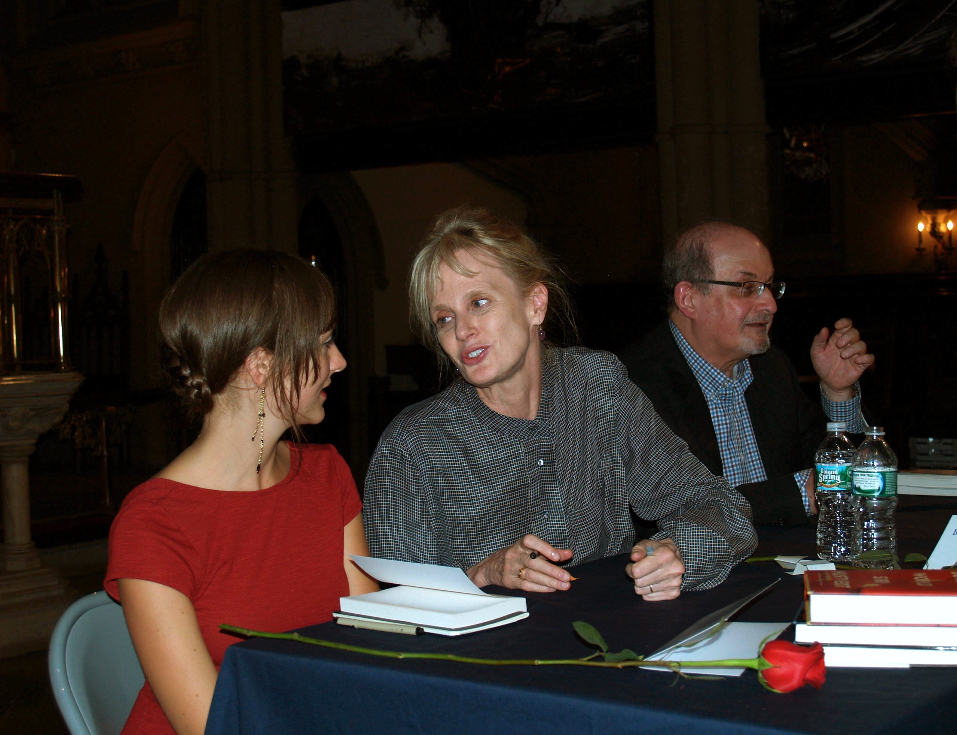 From left to right: Novelist/teacher Catherine Lacey, novelist/essayist Siri Hustvedt, and novelist/essayist Salman Rushdie, following "The Writer's Life" panel at the the 2014 Brooklyn Book Festival. This photo was created by Luigi Novi. It is not in the public domain, and use of this file outside of the licensing terms is a copyright violation.